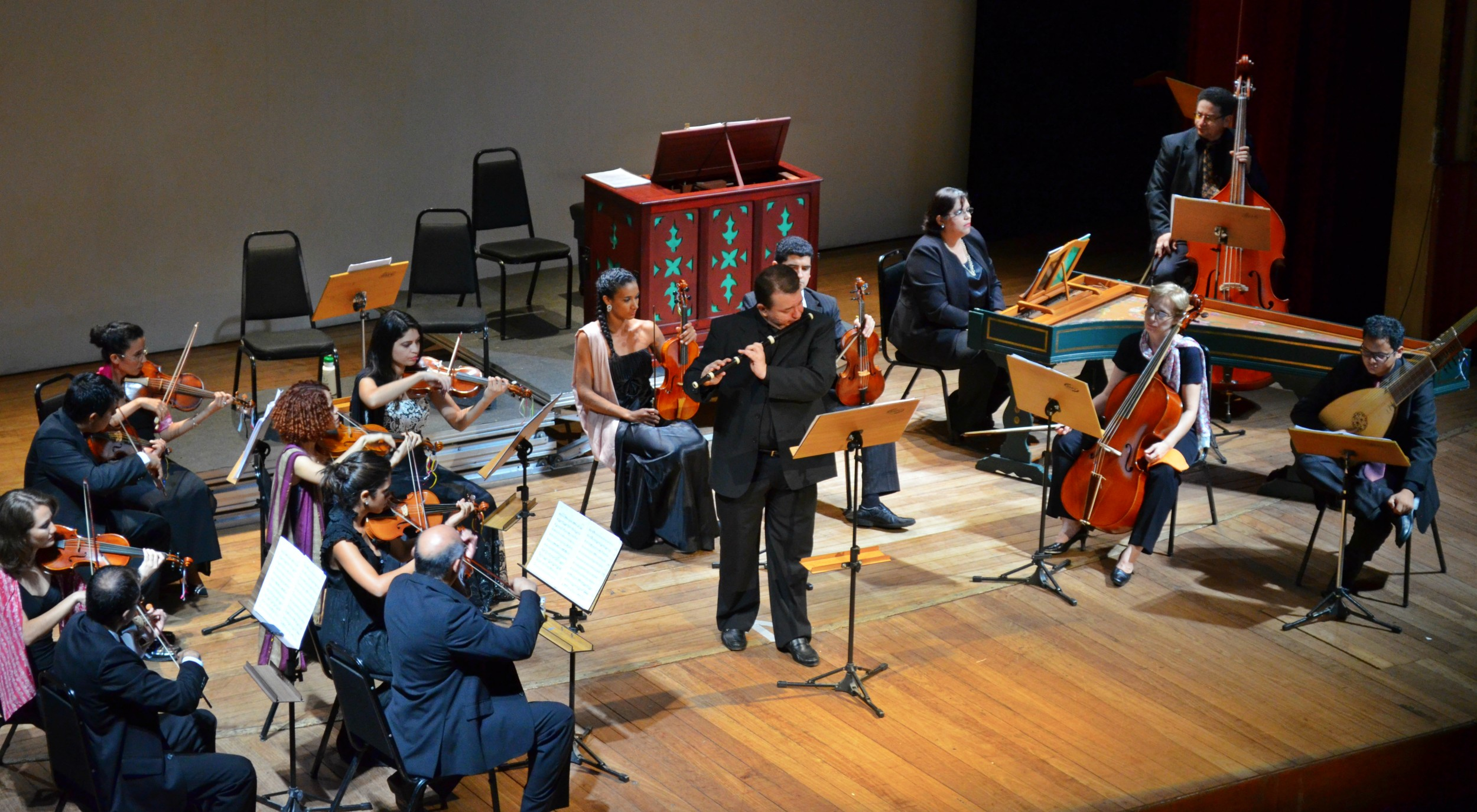 Concert in Amazon Theater - April 13, 2013